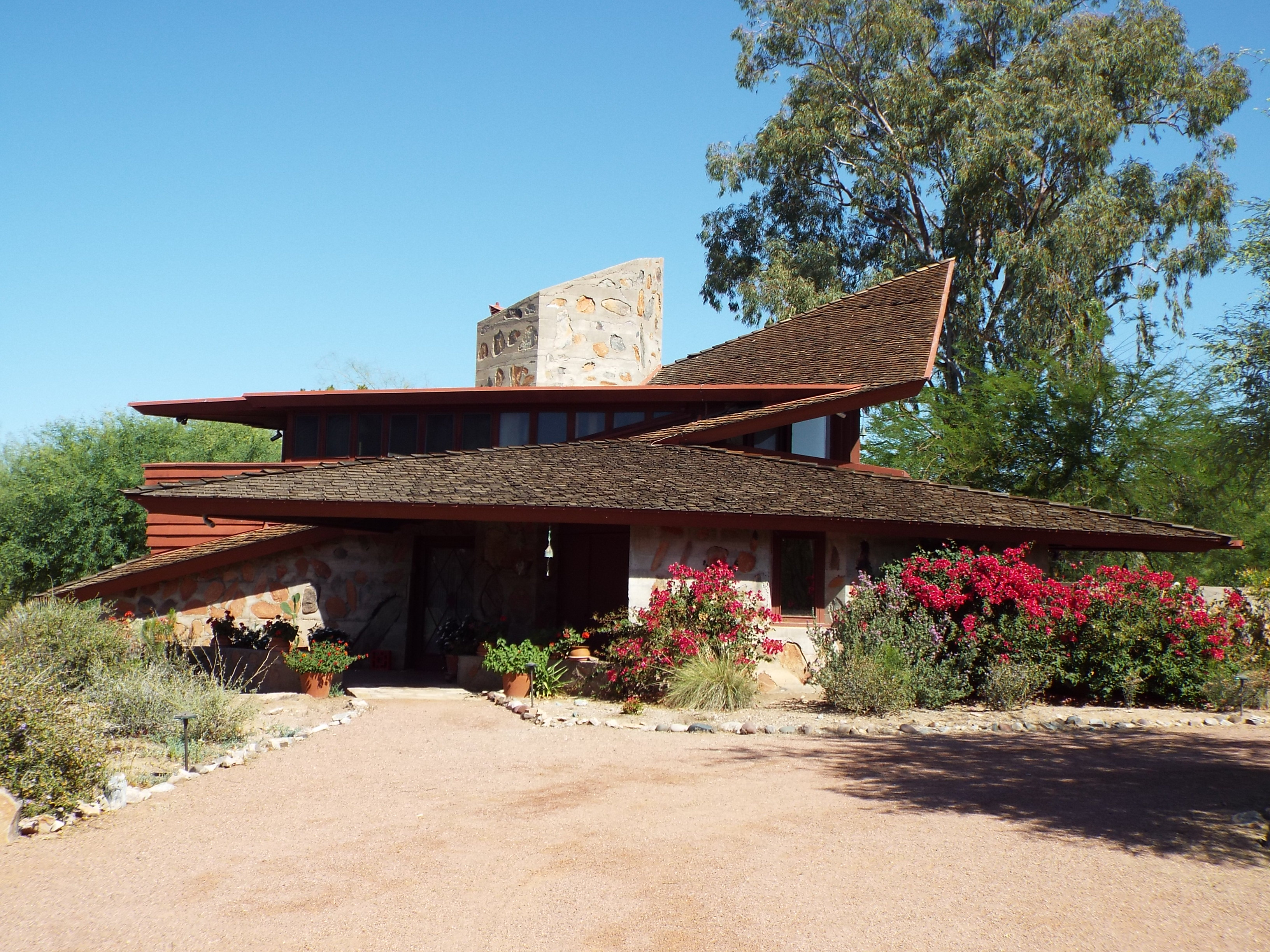 The Jorgine Boomer House was built in 1956 and is located at 5808 30th Street in Phoenix, Az. The house was designed by Frank Lloyd Wright for Jorgine Slettede Boomer, the widow of Lucius Boomer, a successful hotelier. The house was listed in the National Register of Historic Places on March 15, 2016, reference #16000071.